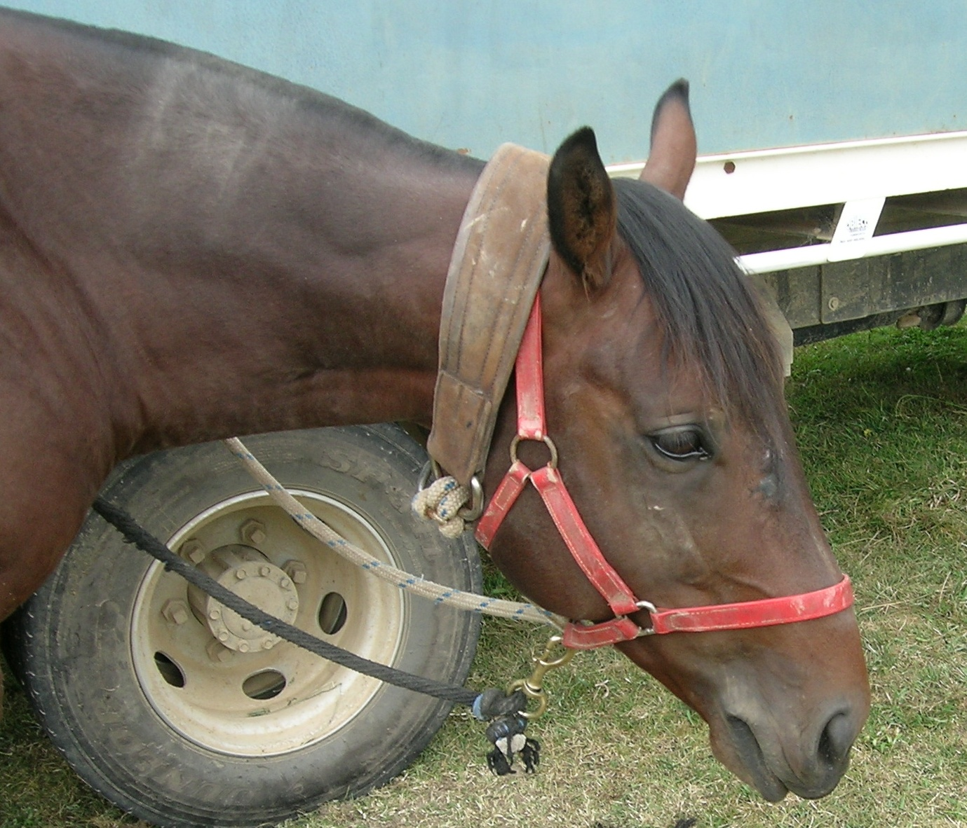 Tie up collar correctly used on a stallion (as required at public events) or for training young horses to tie.